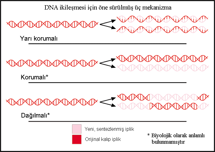 An overview of three postulated types of DNA replication. Original work for Wikipedia by Mike Jones (User: Adenosine). Labels translated to Turkish.